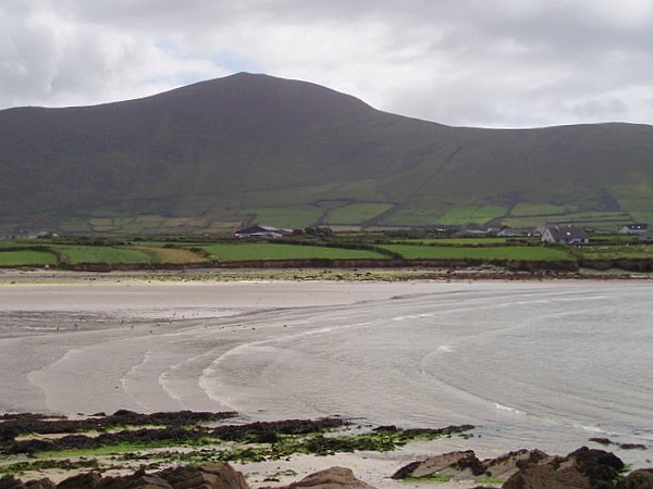 Ferriter's Cove. Looking across the cove, and the incoming tide, towards the houses in Baile an Chala and the mountain Cruach Mharthain (403m).